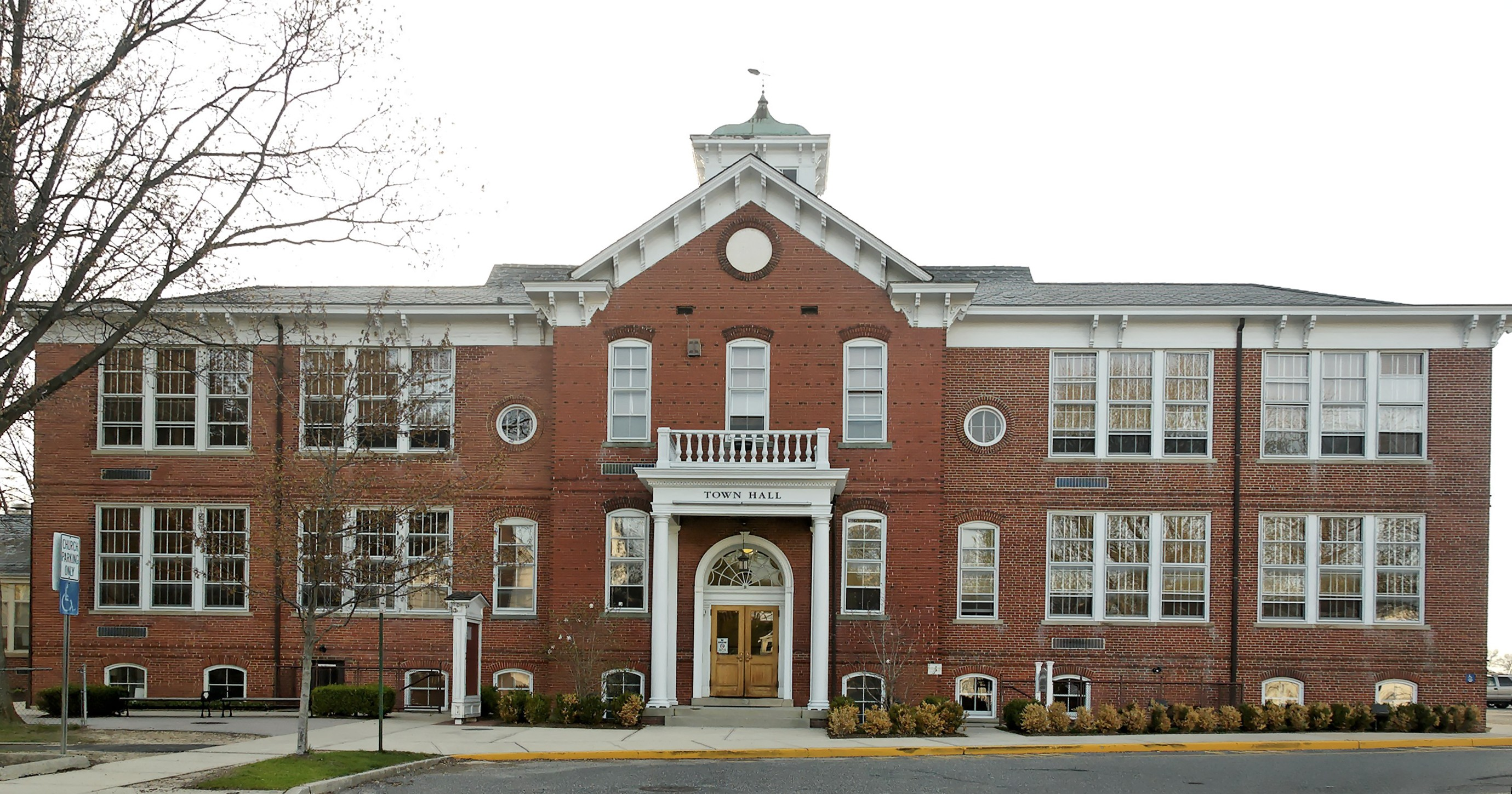 Cranbury's town hall, originally the Cranbury School, dedicated in 1897, rededicated as town hall in 2001.